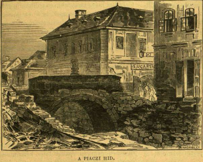 Eger, flood